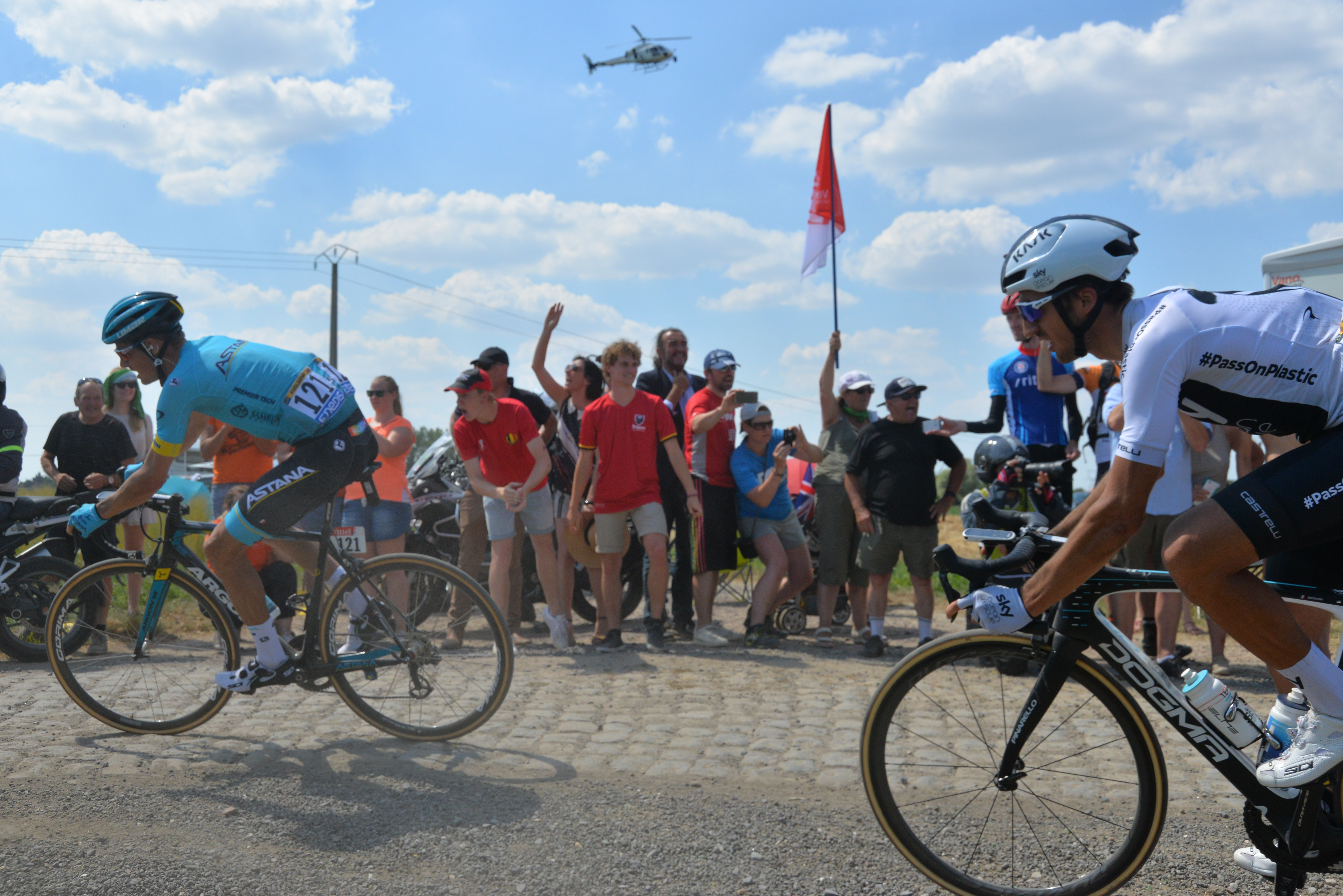 2018 Tour de France – stage 9 sector 9